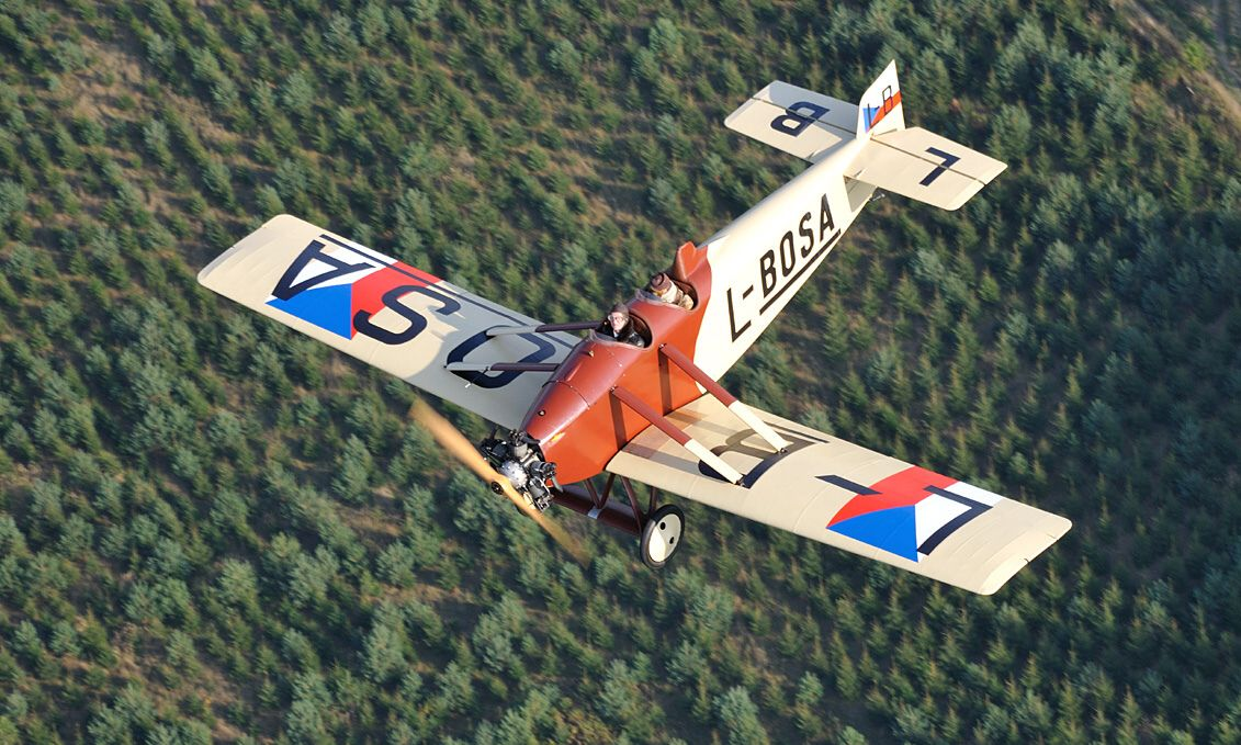 This is replica of czechoslovakia plane Avia BH-5, with original engine Walter NZ 60 from 1924.